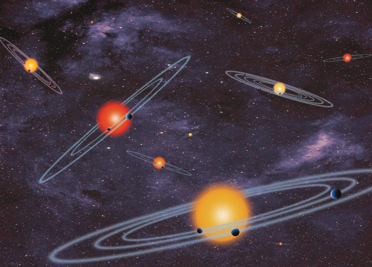 (Cited from NASA’s source website:) This artist concept depicts "multiple-transiting planet systems," which are stars with more than one planet. The planets eclipse, or transit, their host stars from the vantage point of the observer. This angle is called edge-on. NASA's Kepler Space Telescope has found hundreds of these multiple-planet systems.